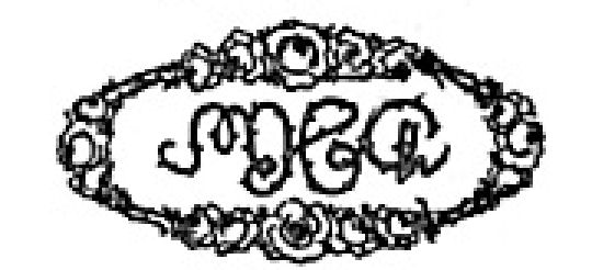 Monogram of Countess Maria Henrietta Chotek